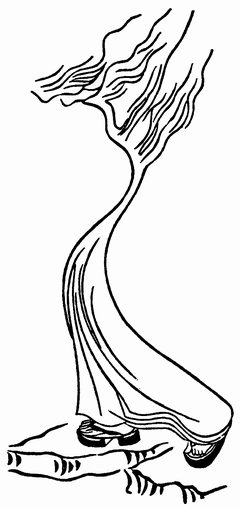 Nihonashi-no-Yurei from Uhanariyu-Adauchibanashi